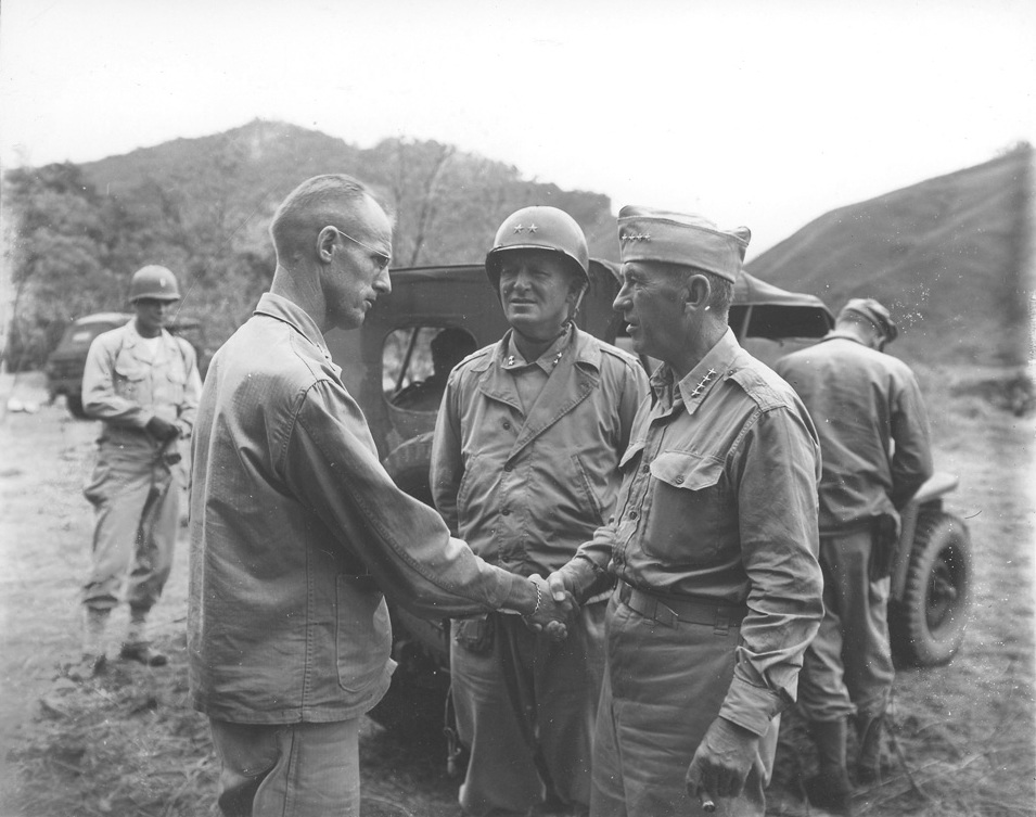 US Army Colonel James Dalton II (left) shakes hands with General Walter Krueger on Luzon, Philippines — sometime in 1945. In the center is Major General Mullins.